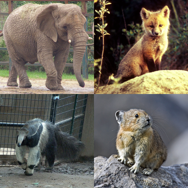 Collage of Image:Howletts-loxodonta-africana-02.jpg, Image:Vulpes_vulpes_pup_sitting_on_stone.jpg, Image:Anteater01.jpeg and Image:Pika_2.jpg